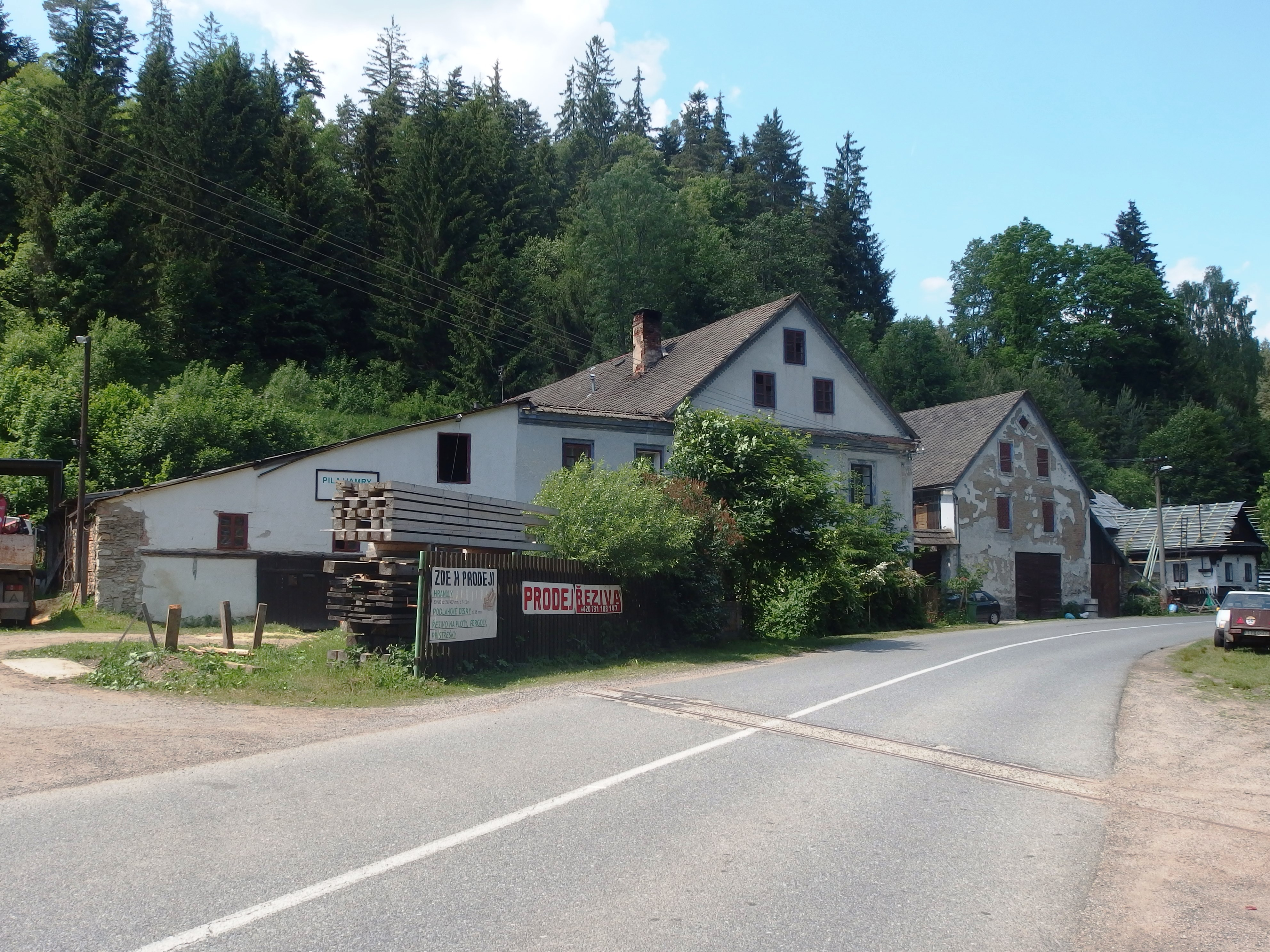 Bystré, Svitavy District, Czech Republic, part Hamry.